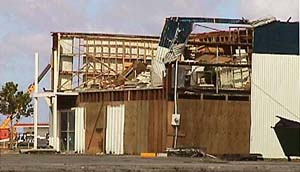 Agana, GU, 12/17/1997 -- Severely damaged business structure in Agana, Guam following Typhoon Paka. Photo by Dave Fowler/ FEMA News Photo